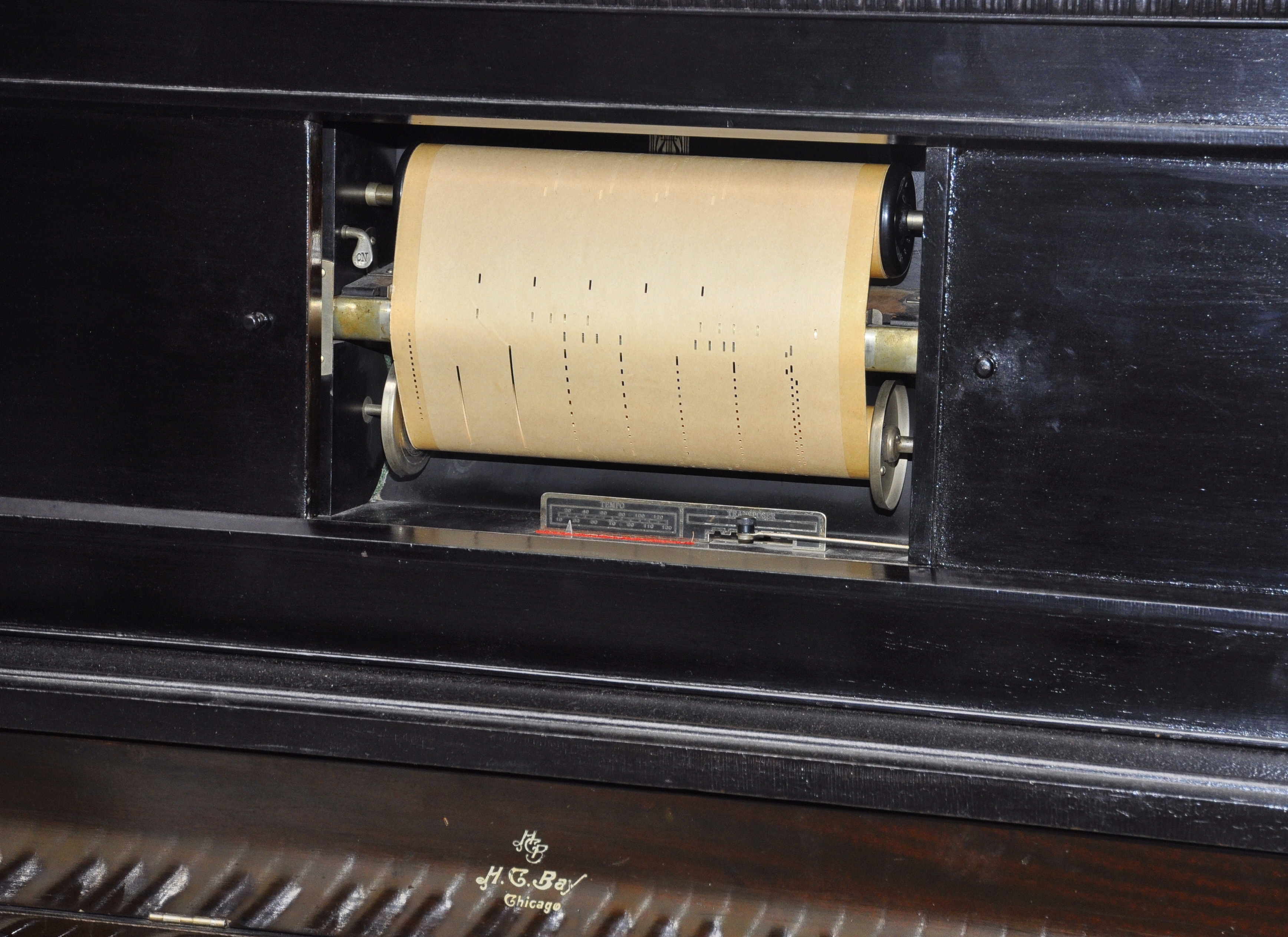 American player piano with rolls H. C. Bay, USA, from 1909-1917.